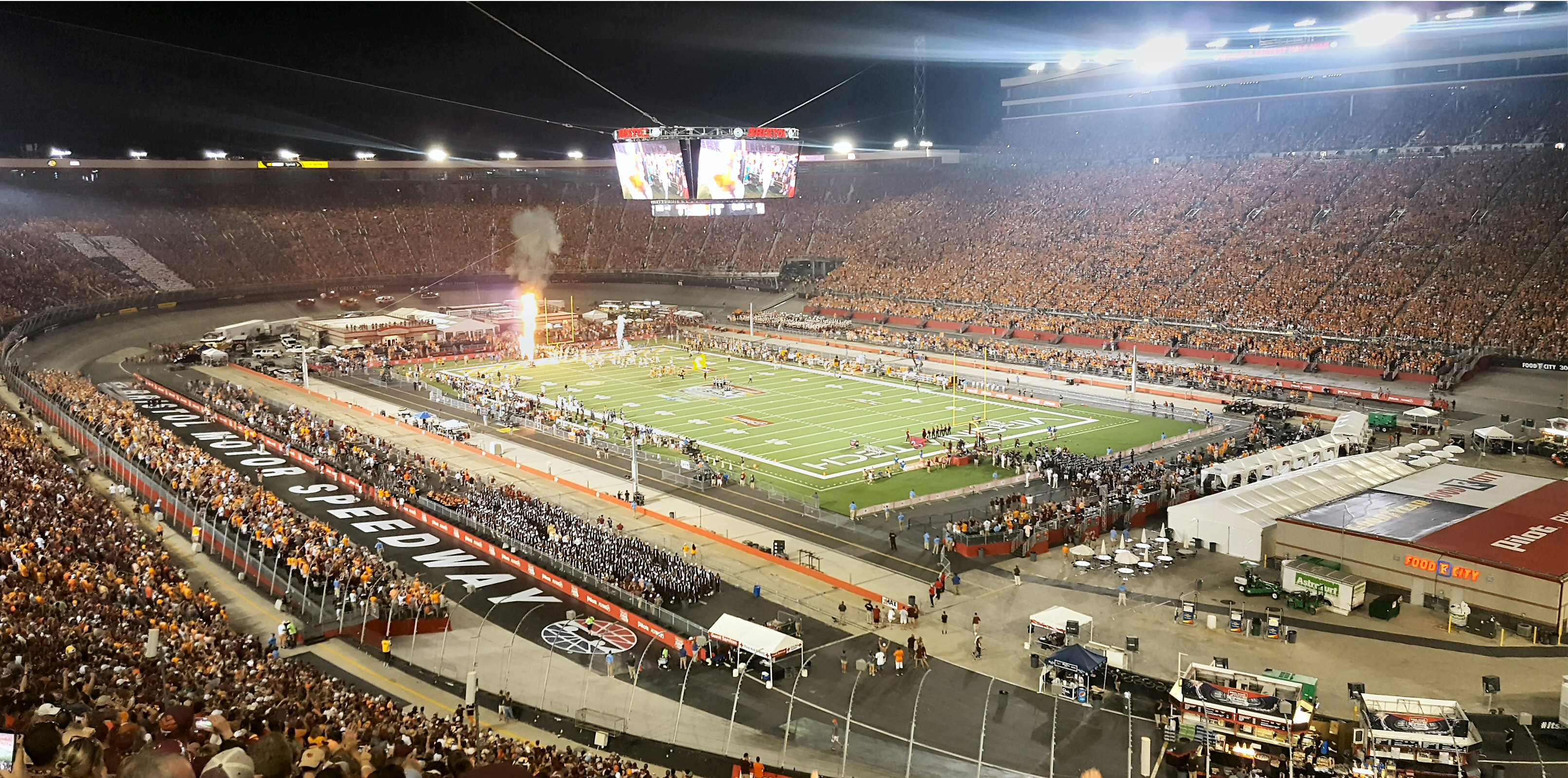 Photograph of Bristol Motor Speedway at the en:2016 Pilot Flying J Battle at Bristol